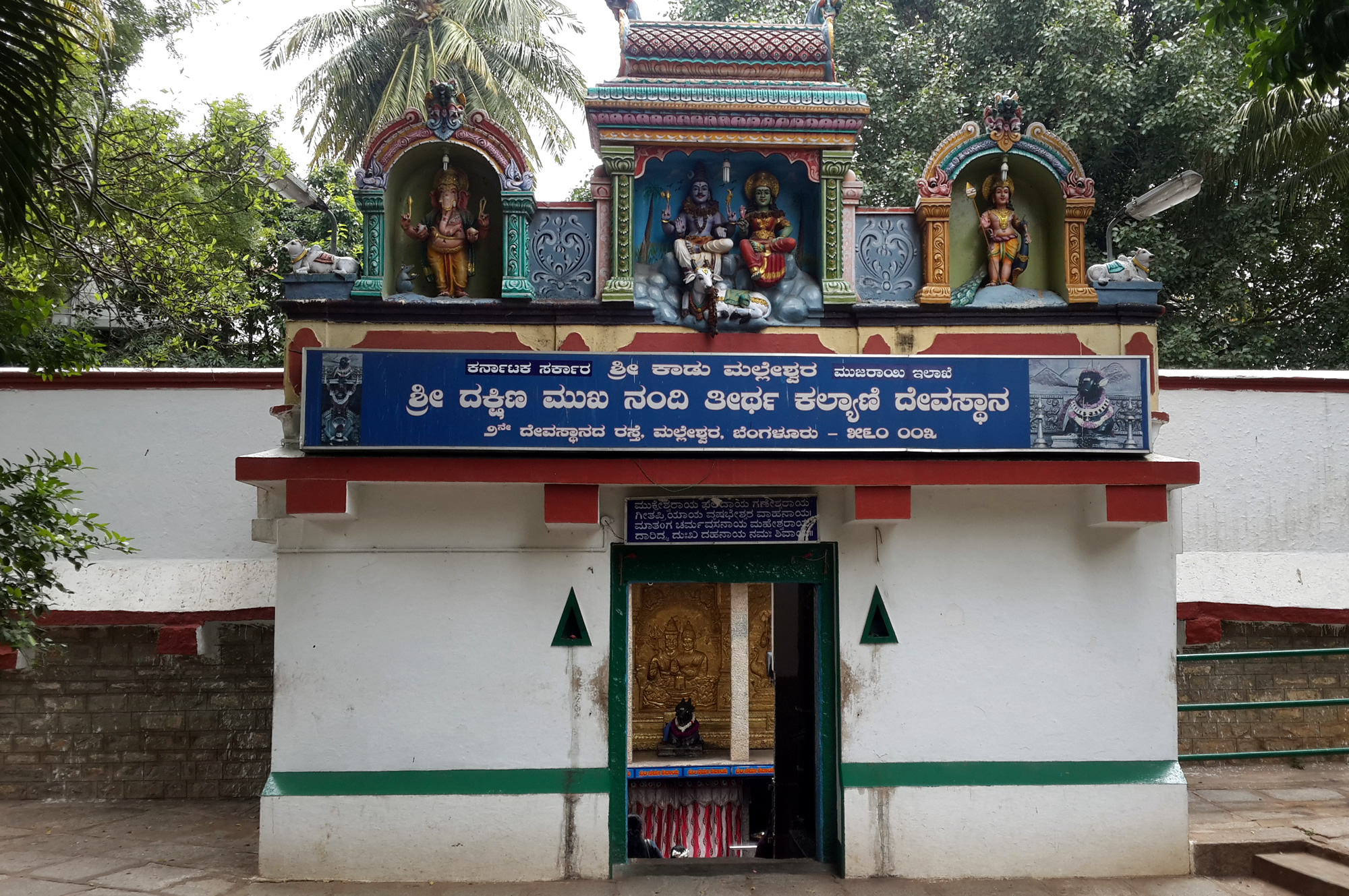 Nandi Tirtha Temple Malleswaram Bangalore